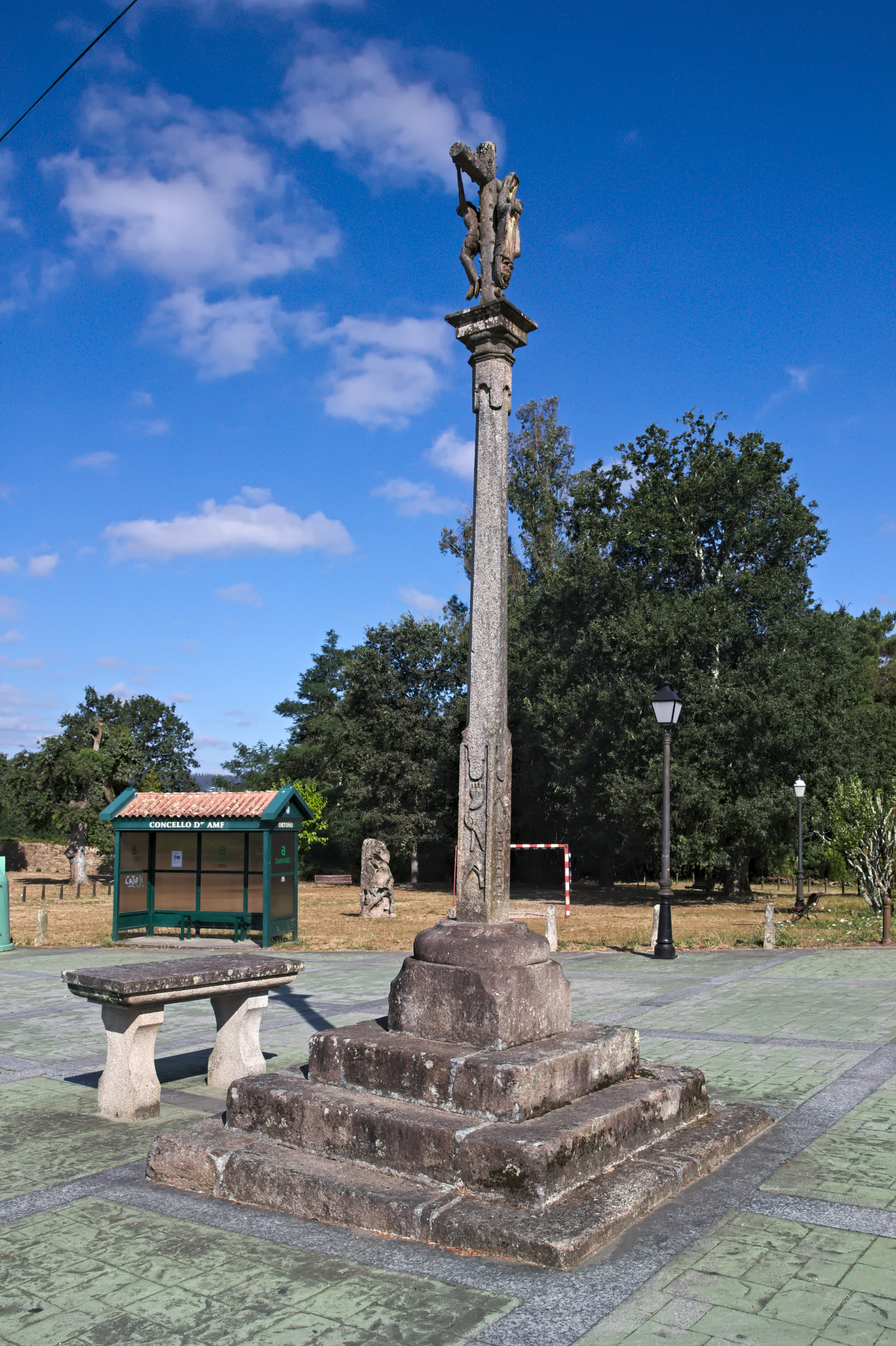 Wayside cross in Ortoño (Ames), Galicia, Spain.